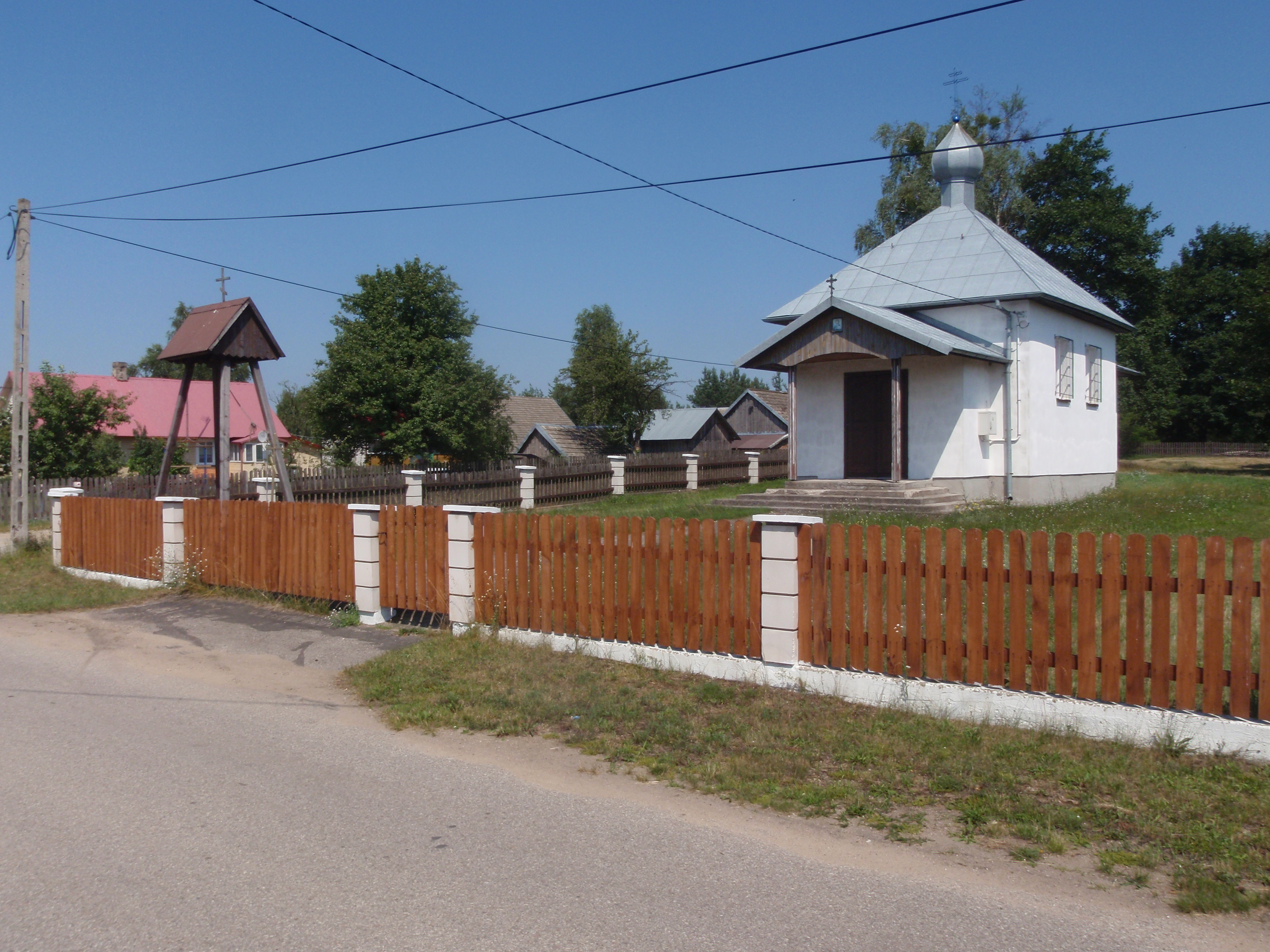 Orthodox chapel in Rybaki, Hajnówka county, POLAND